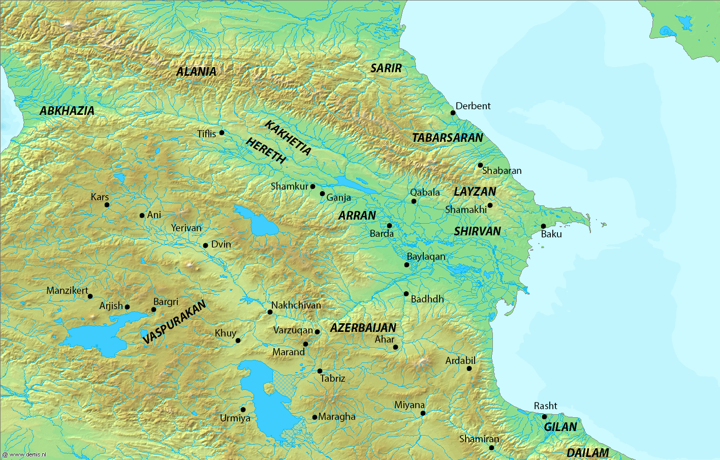 Map of Caucasus and its surroundings. Map taken from DEMIS Mapserver, which is public domain, the rest is self-made.